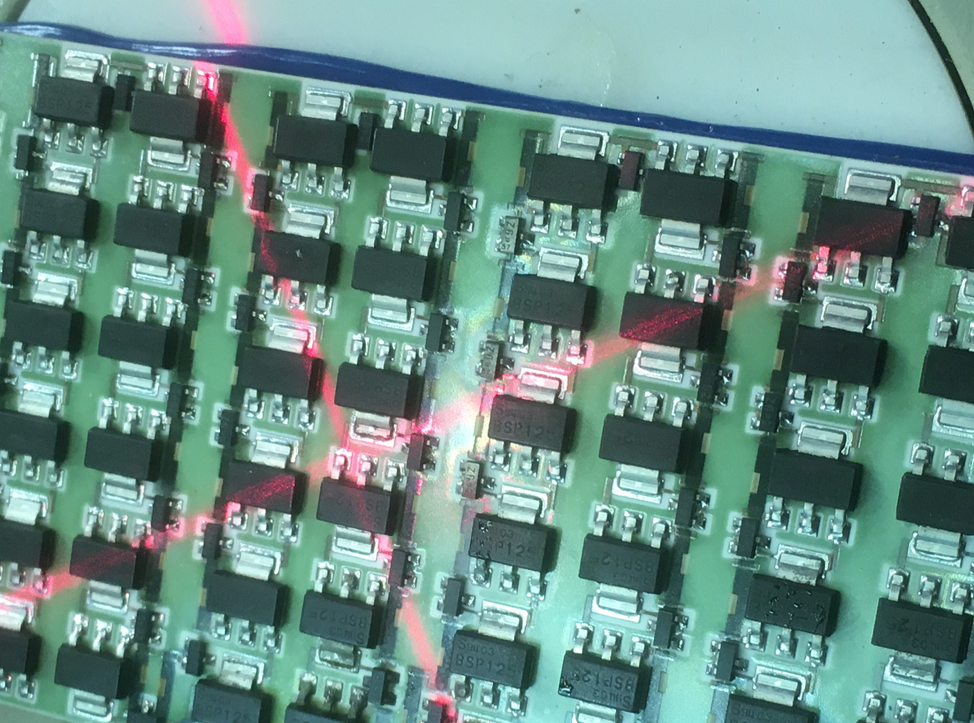 Laser alignment crosshairs and low-intensity 4300 K light projected by a smart ring light (Orled RL16XT) onto a ceramic PWB. The ring light is mounted on a stereo microscope; the crosshairs facilitate rapid component location when transitioning between microscope and direct viewing.